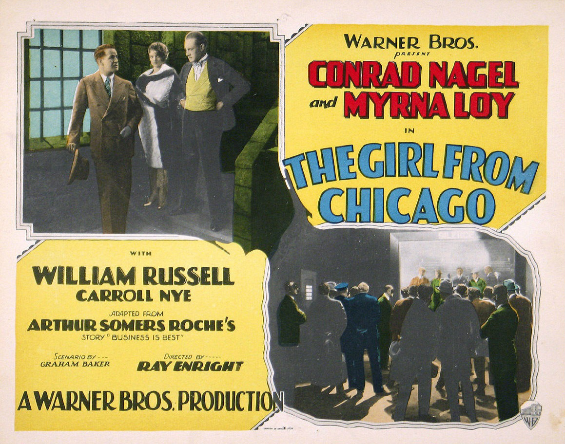 Lobby card for the American crime drama film The Girl From Chicago (1927).